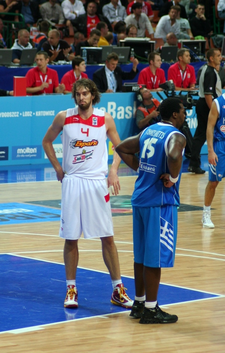 Pau Gasol (Spain) and Sofoklis Schortsanitis (Greece) during Eurobasket 2009 semi-finals in Katowice.